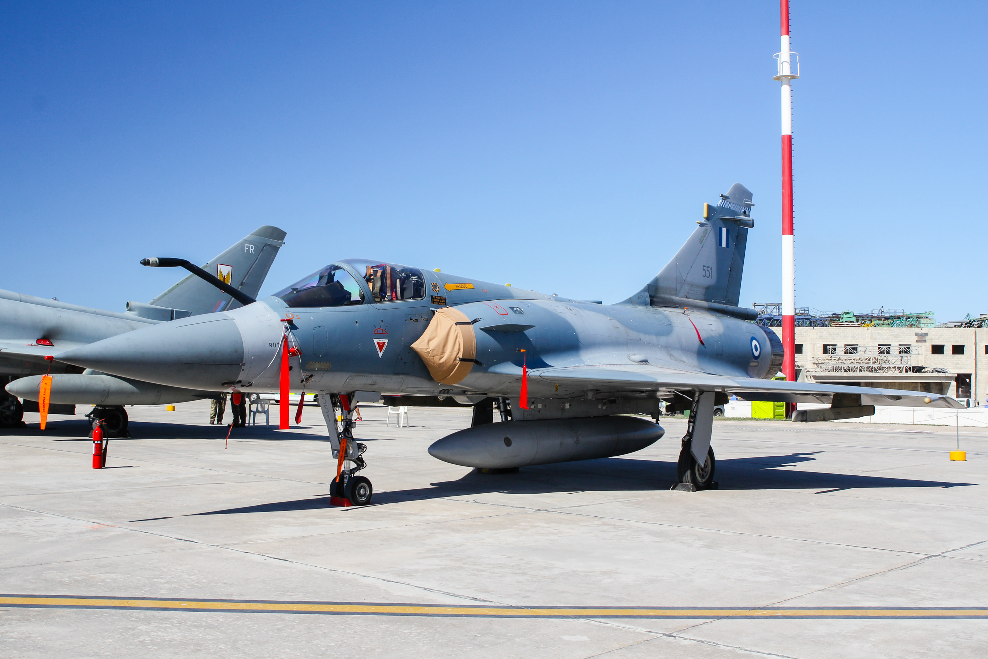 Hellenic Air Force Mirage 2000-5EG at the 2015 Malta International Airshow